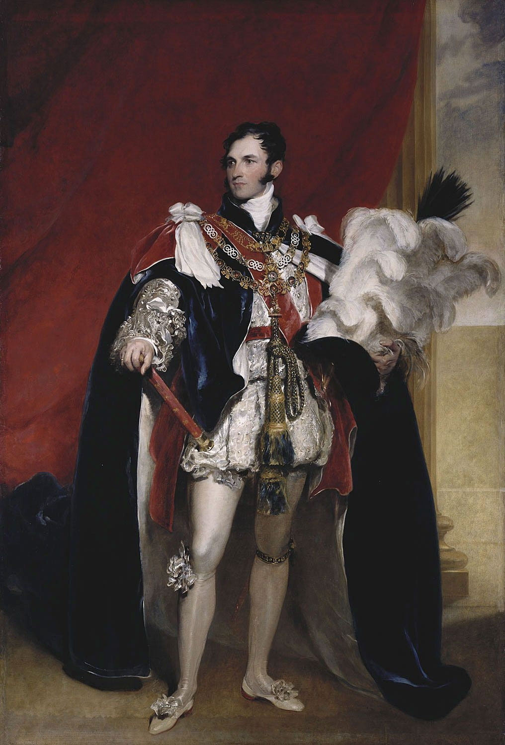 Leopold I of Belgium (1790-1865)